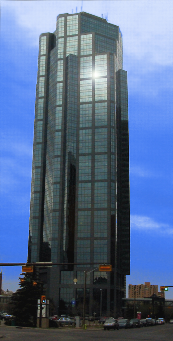 Cantera Tower, Calgary, Alberta, Canada